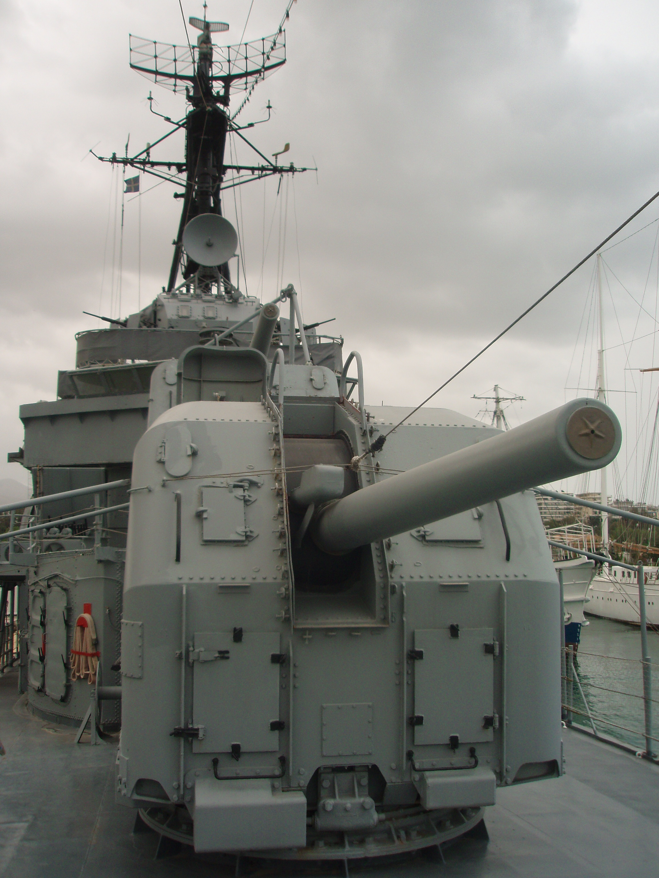 Bow 127 mm gun of the destroyer Velos, now a museum ship at the Maritime Tradition Park in Faliron, Greece